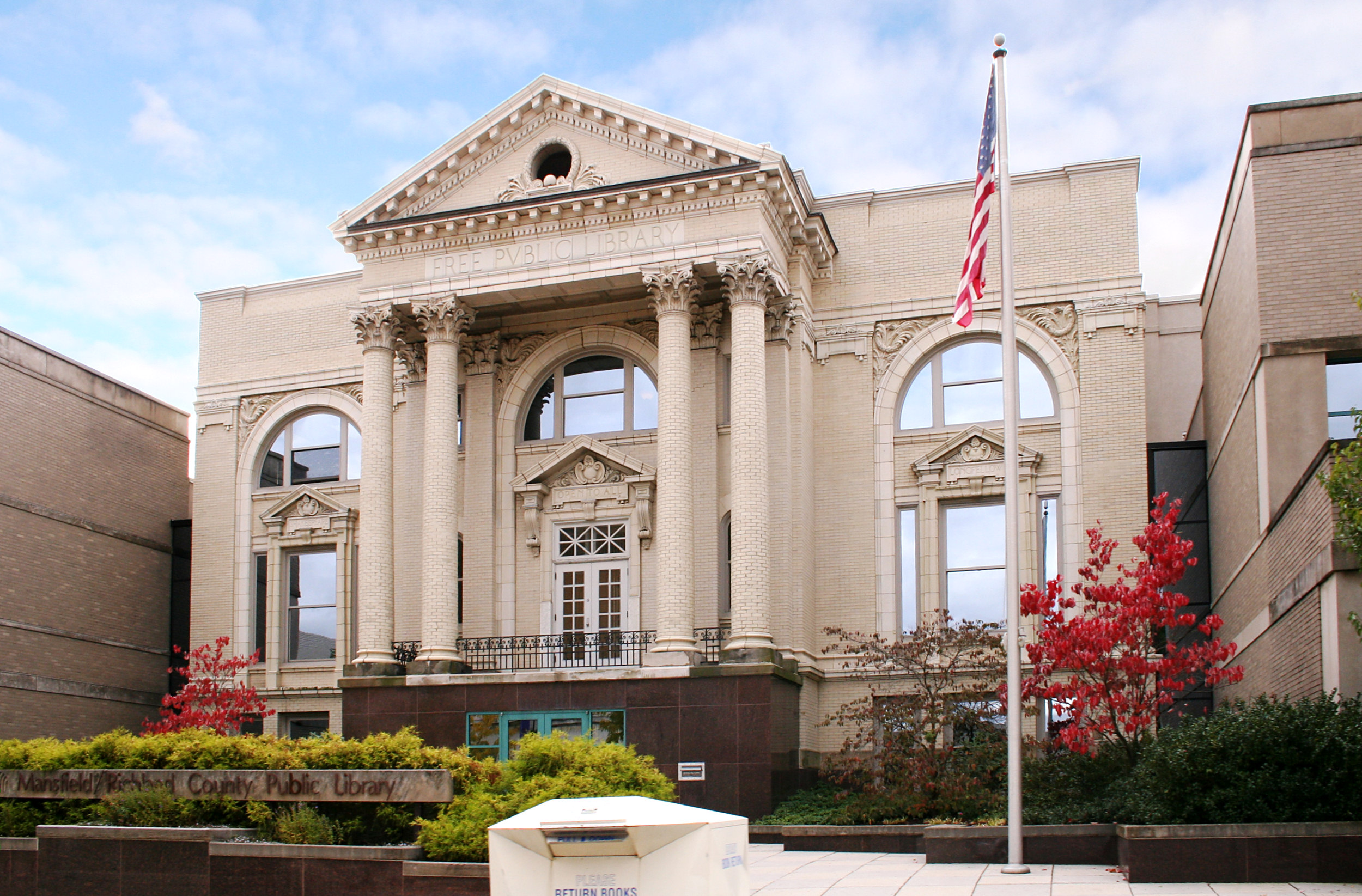 County library in Mansfield, Ohio. Photo shot by Derek Jensen (Tysto), 2005-October-27